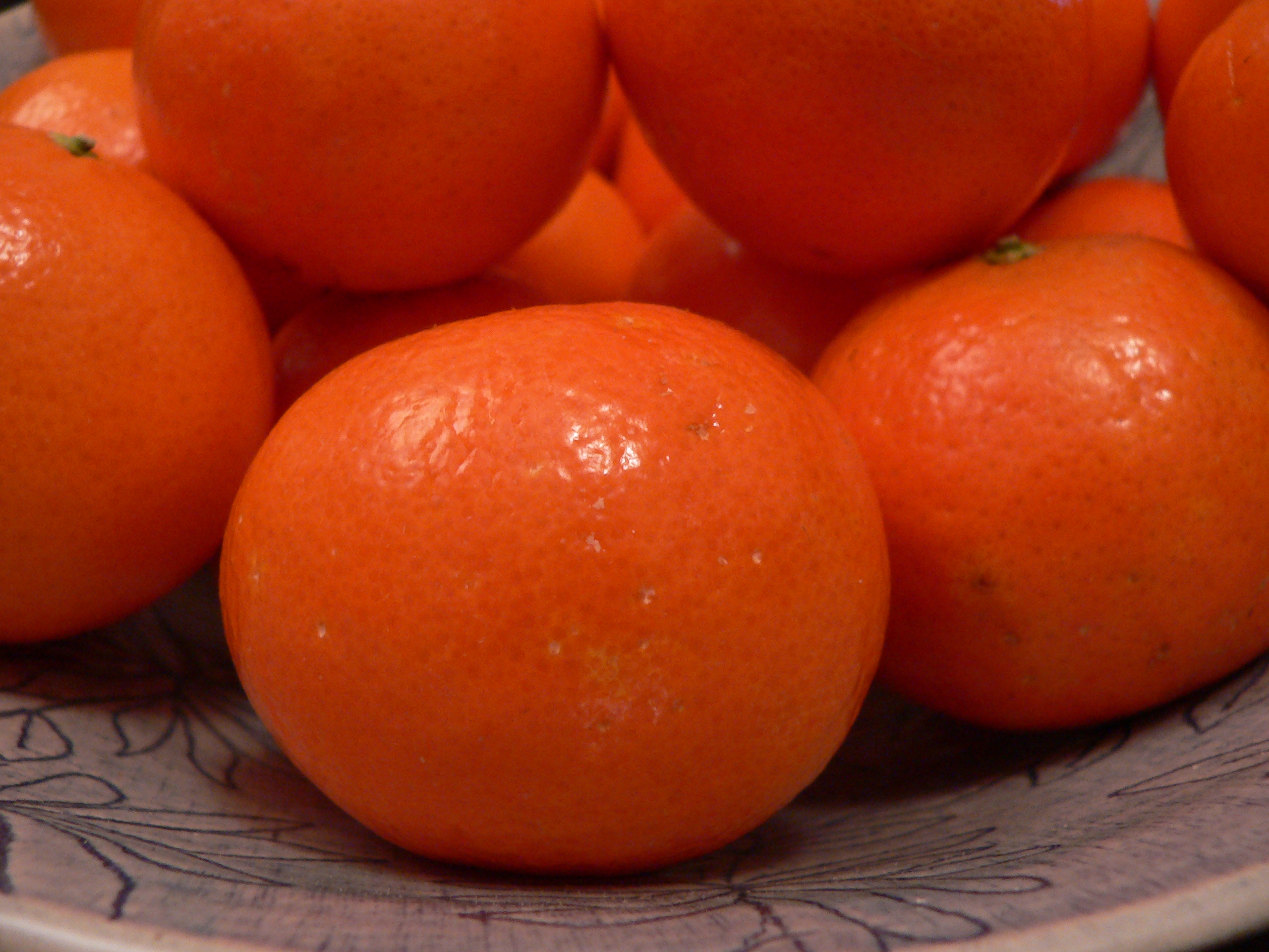 Close up of a clemenvilla, a clementine tangerine hybrid, surrounded by other clemenvillas in a ceramic bowl.